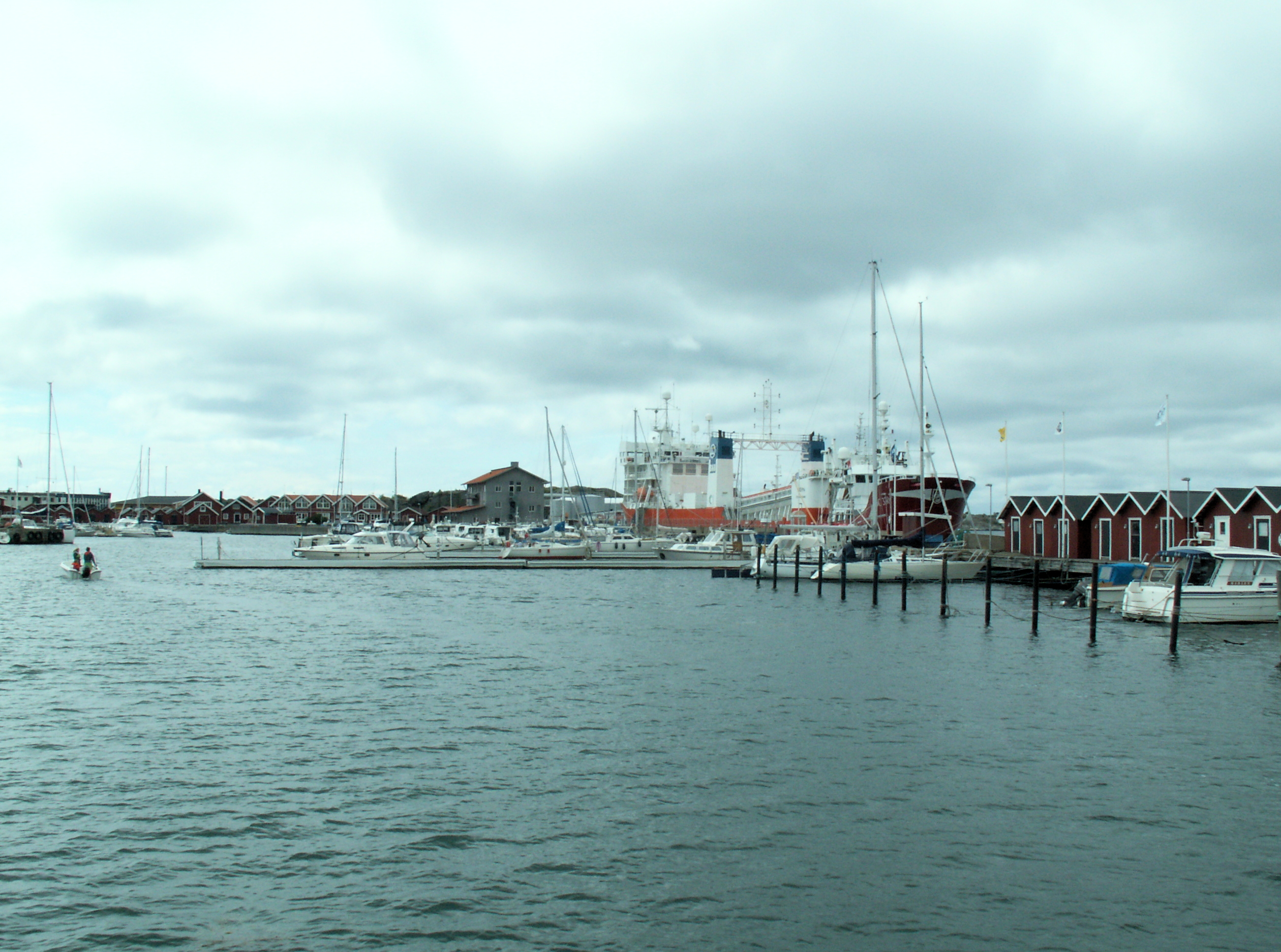 Sigyn, in Donsö harbour.